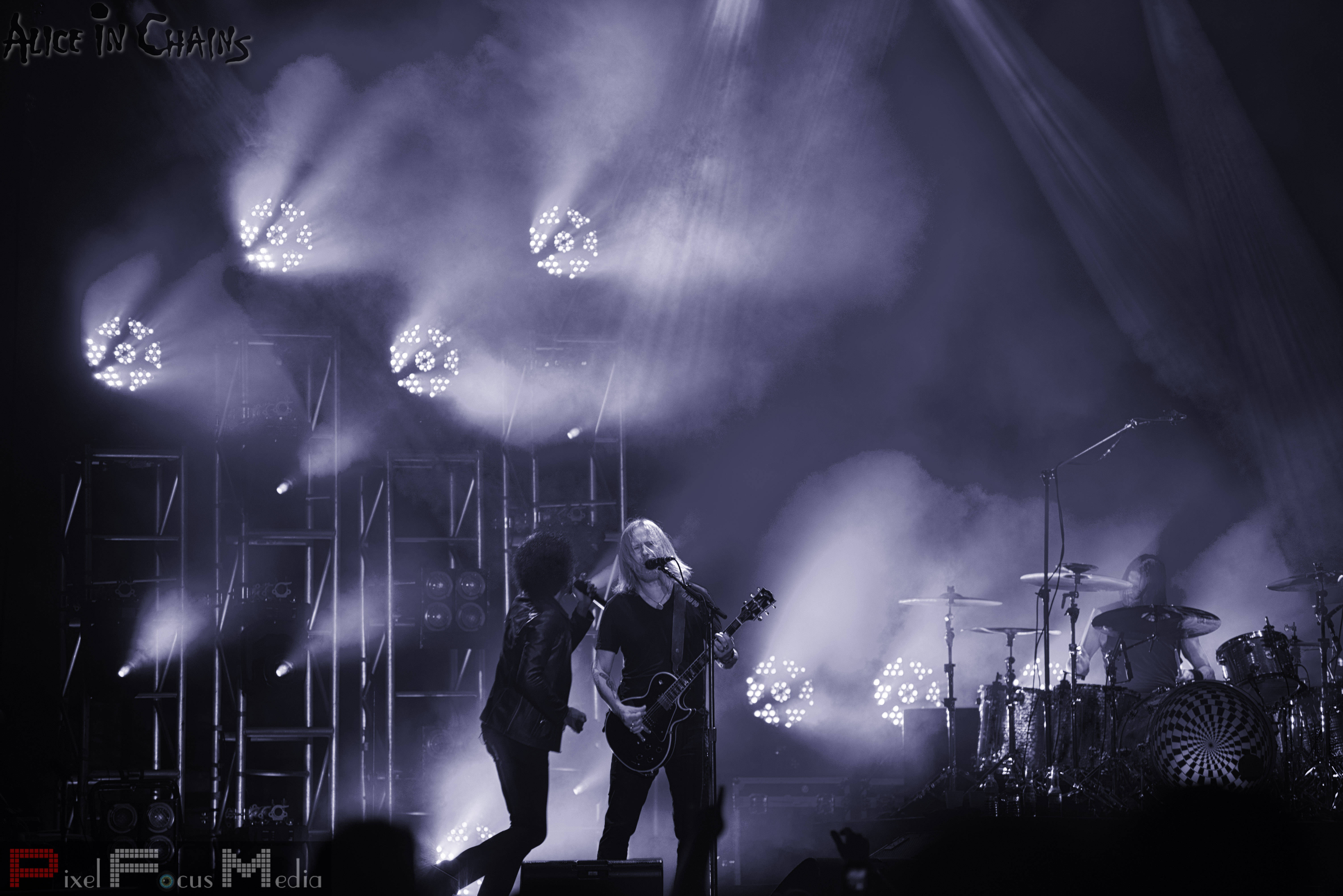 Alice in Chains live at 2016